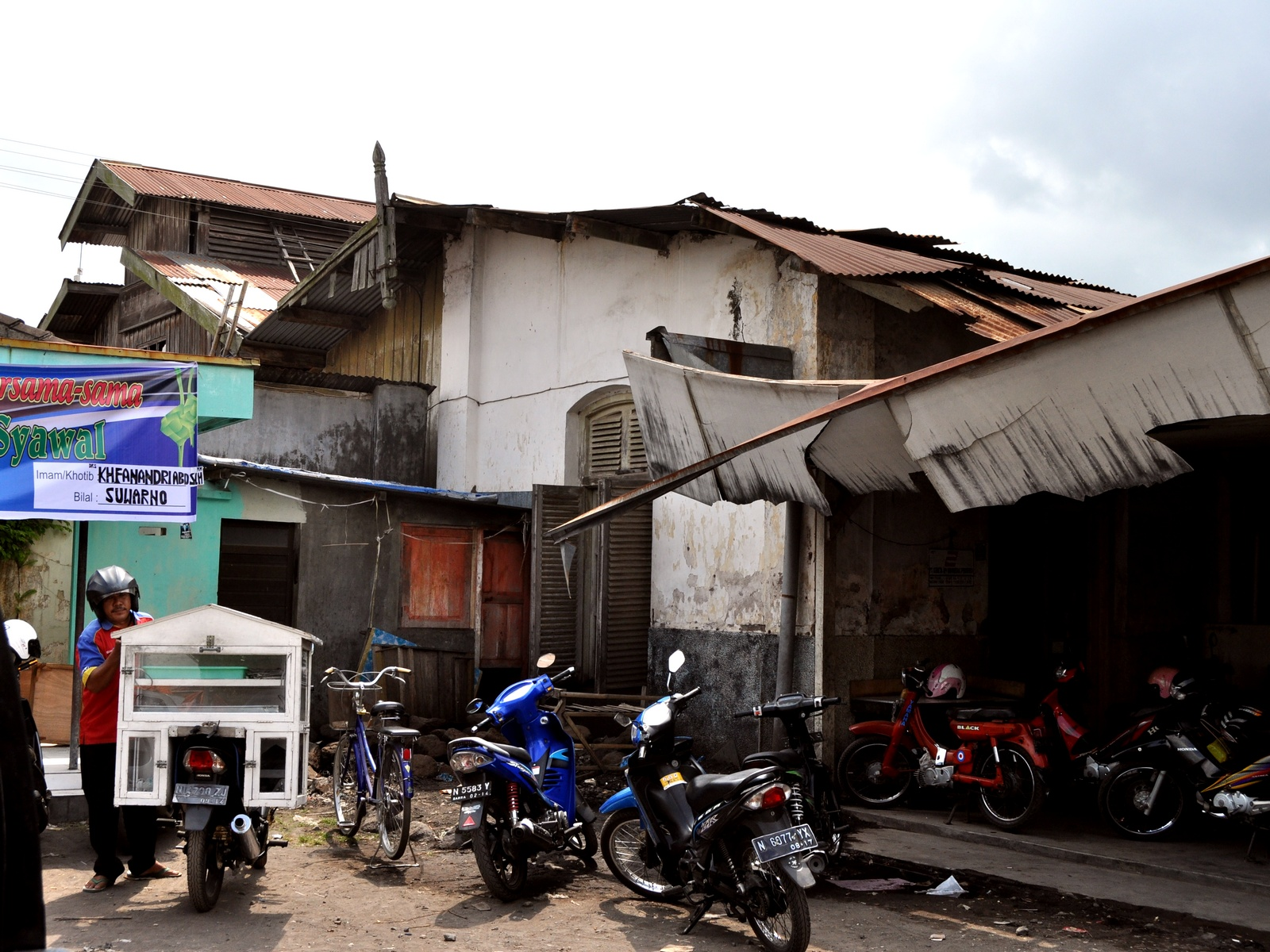 Ex Lumajang train station in Lumajang, East Java, Indonesia. Now its becoming a storehouse; south-eastern corner.